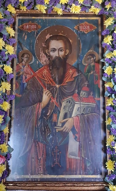 St Naum of Ohrid icon in Armenohori, Florina